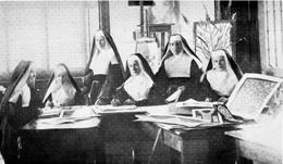 A picture of the Poor Clare Nuns who designed the lace from 1889